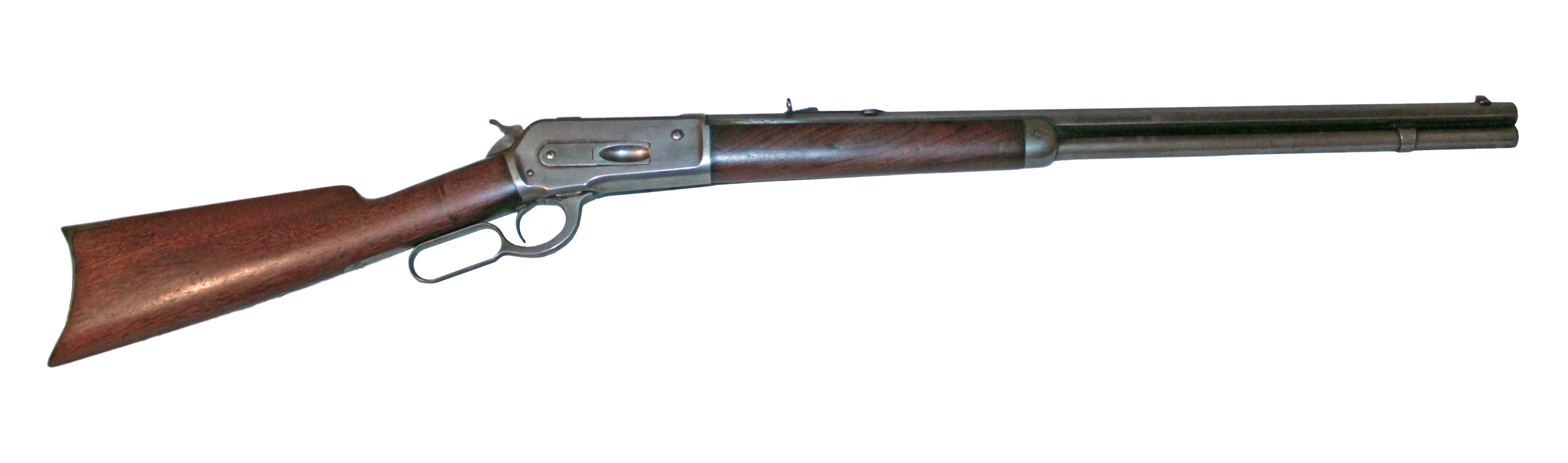 Winchester Model 1886 in .38-56, transparent background